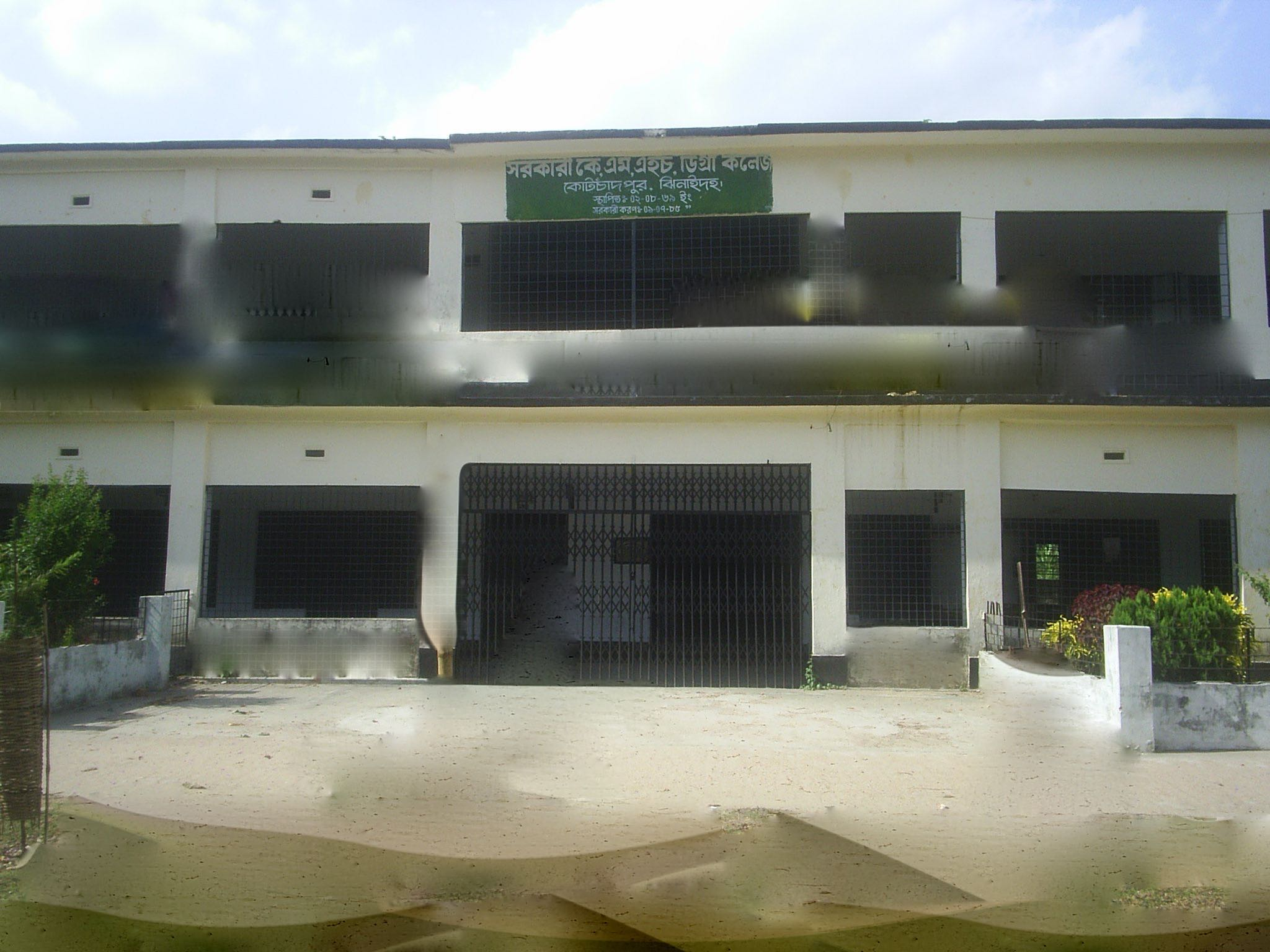 Main Entrance